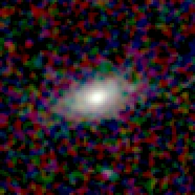 NGC 2 in near-infrared wavelength (J-H-Ks bands composite).